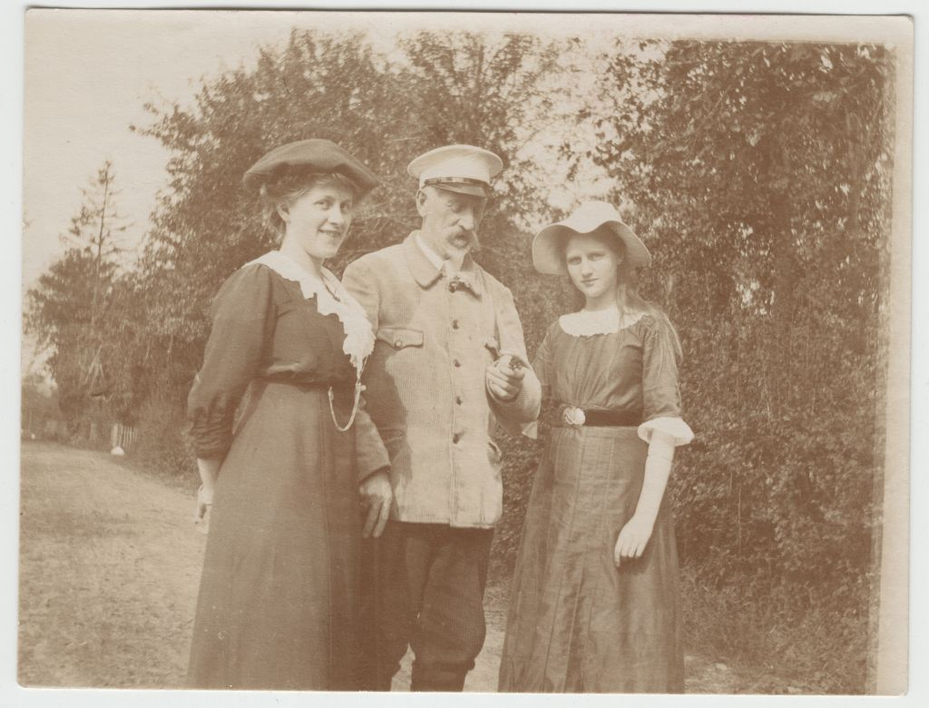 Eveline Maydell with her father Hermann Frank and sister Ilse in the Wikoline manor in Poland)